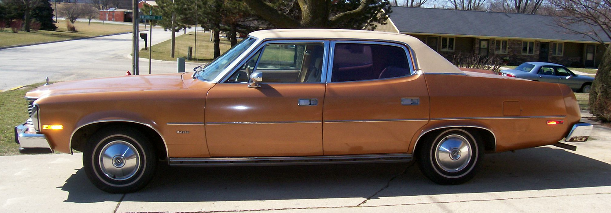 1978 AMC Matador sedan. 360 cubic inch V8, 3-speed automatic transmission.